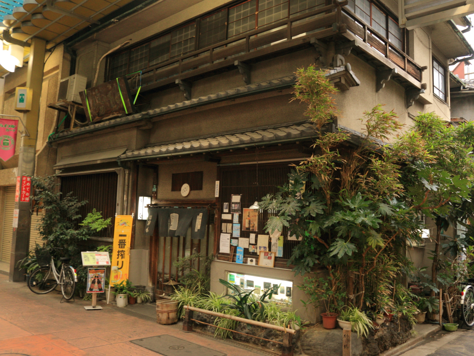 Minami Senju Sunaba (Old Soba restaurant, Minowabashi, Tokyo).